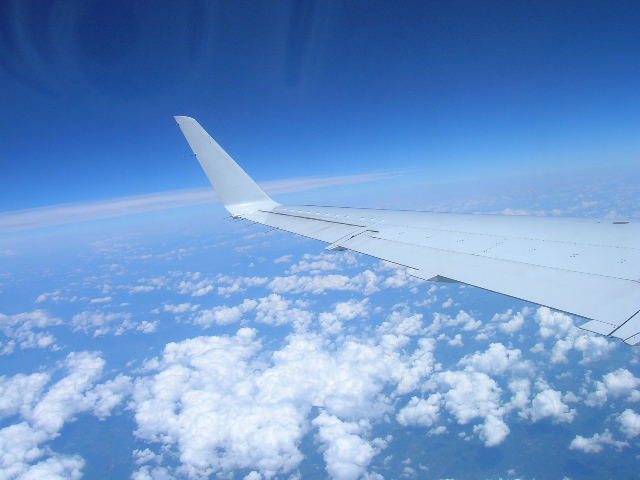 i take that picture with a nikon coolpix in a flight between TLC and IAH